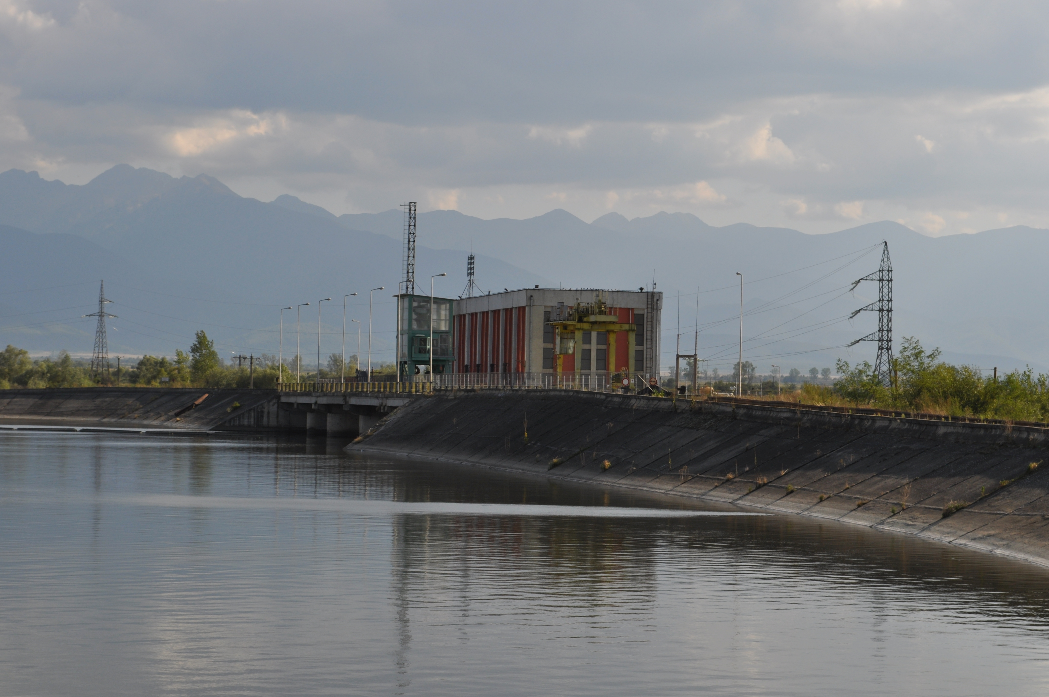 Arppașu dam and reservoir, Sibiu county, Romania